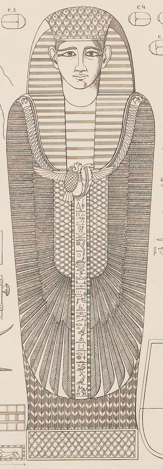 Drawing of the rishi coffin belonged to the ancient Egyptian prince Hornakht, who lived during the late 17th Dynasty. It was discovered in 1862 at Dra' Abu el-Naga'.